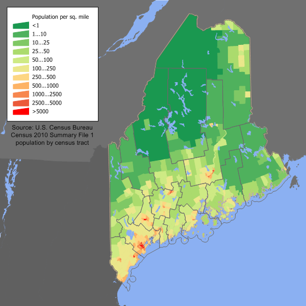 Maine population density map from Census 2010 data.